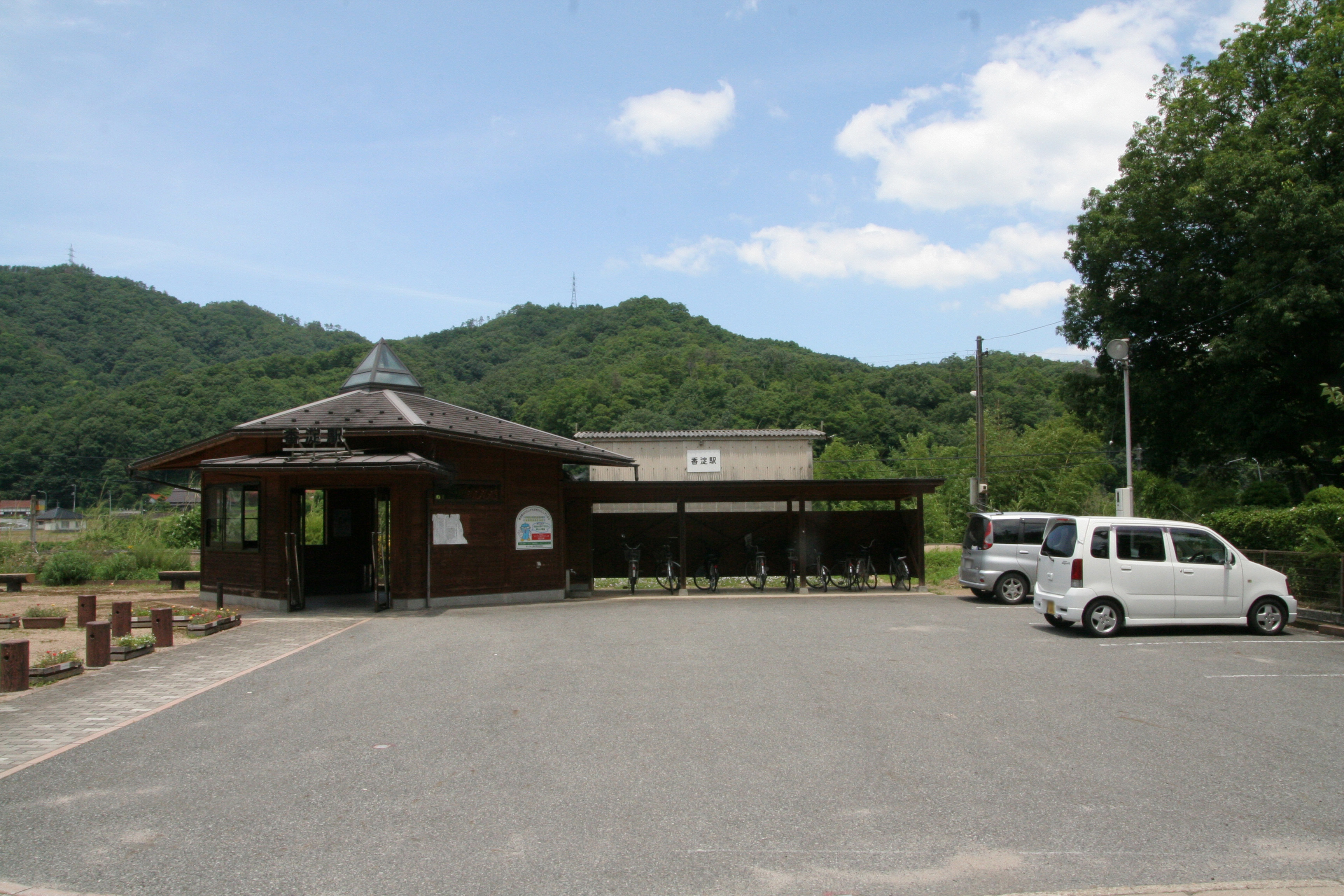 West Japan Railway Sanko Line Kouyodo Station